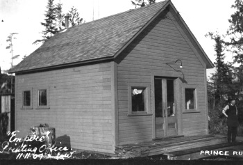 Photographer Unknown Photo taken Nov 11th, 1907 Credit Prince Rupert City and Regional Archives. Their terms of use say: no restrictions on non commercial use. Archives # LP984-29-1759-140 [1]